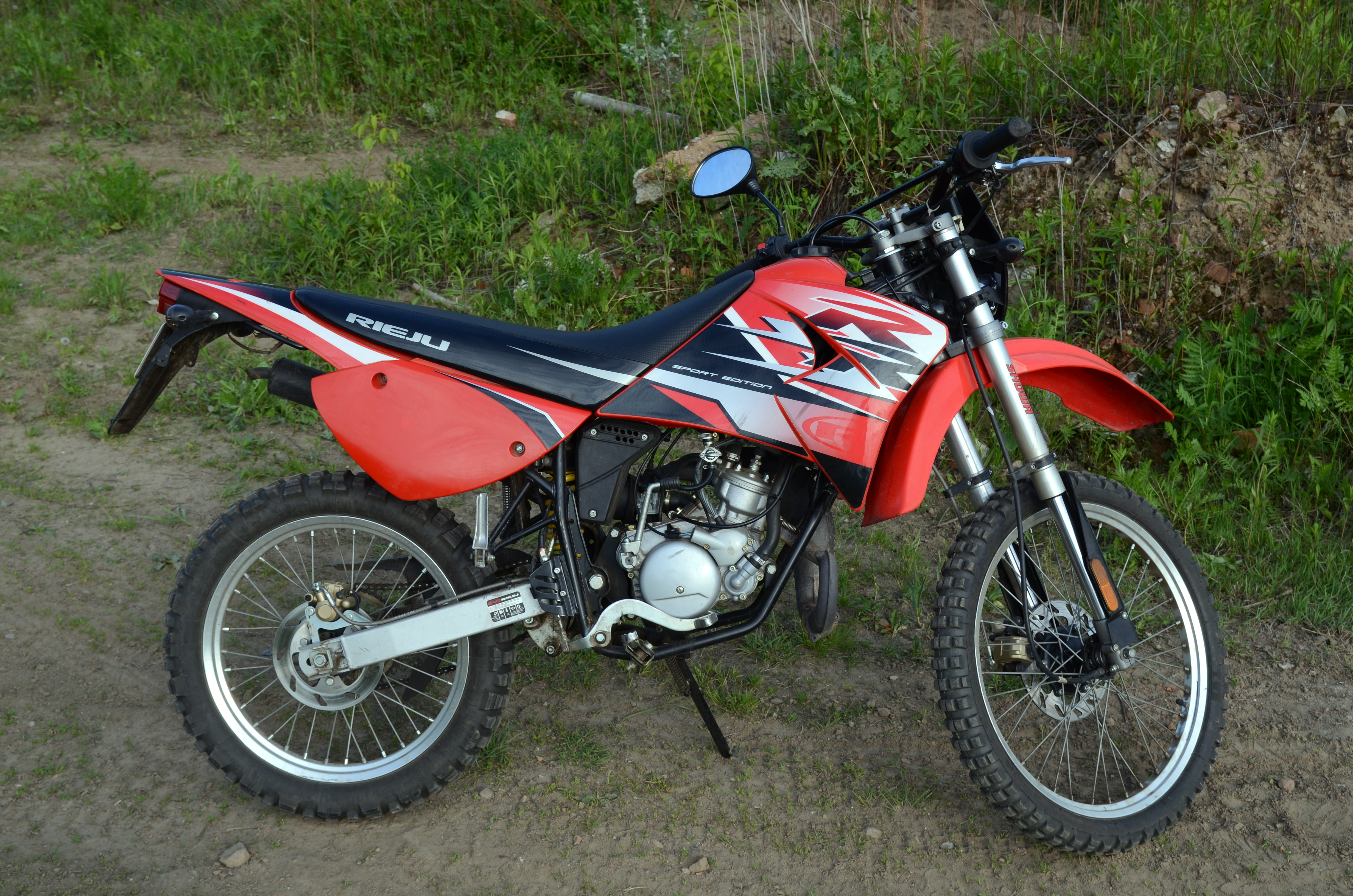 Rieju RR Sport Edition motorbike.